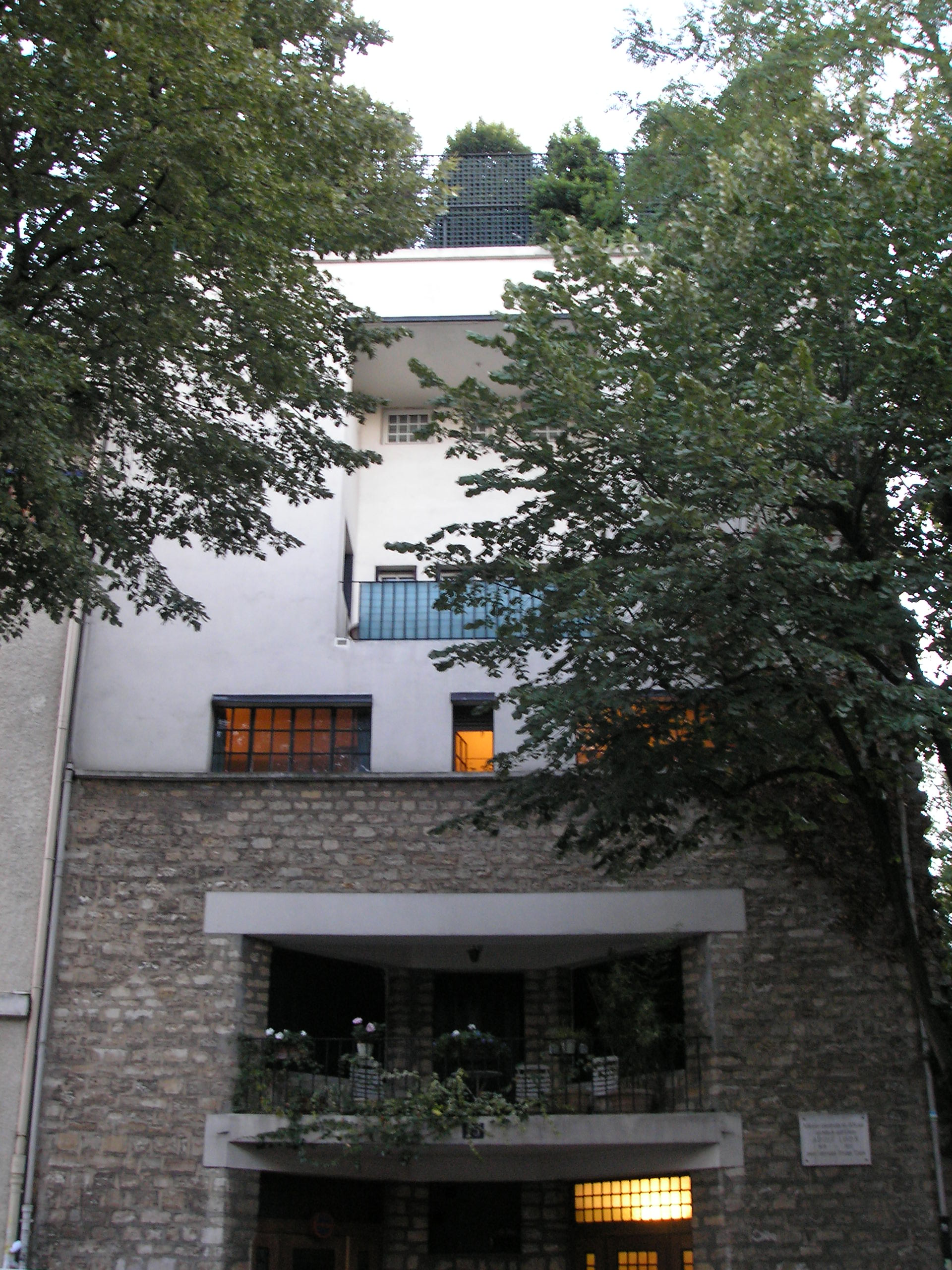 View of the house of Tristan Tzara in Paris, 15 Avenue Junot in Paris 18th arrondisement. Constructed by the Austrian architect Adolf Loos in 1926.